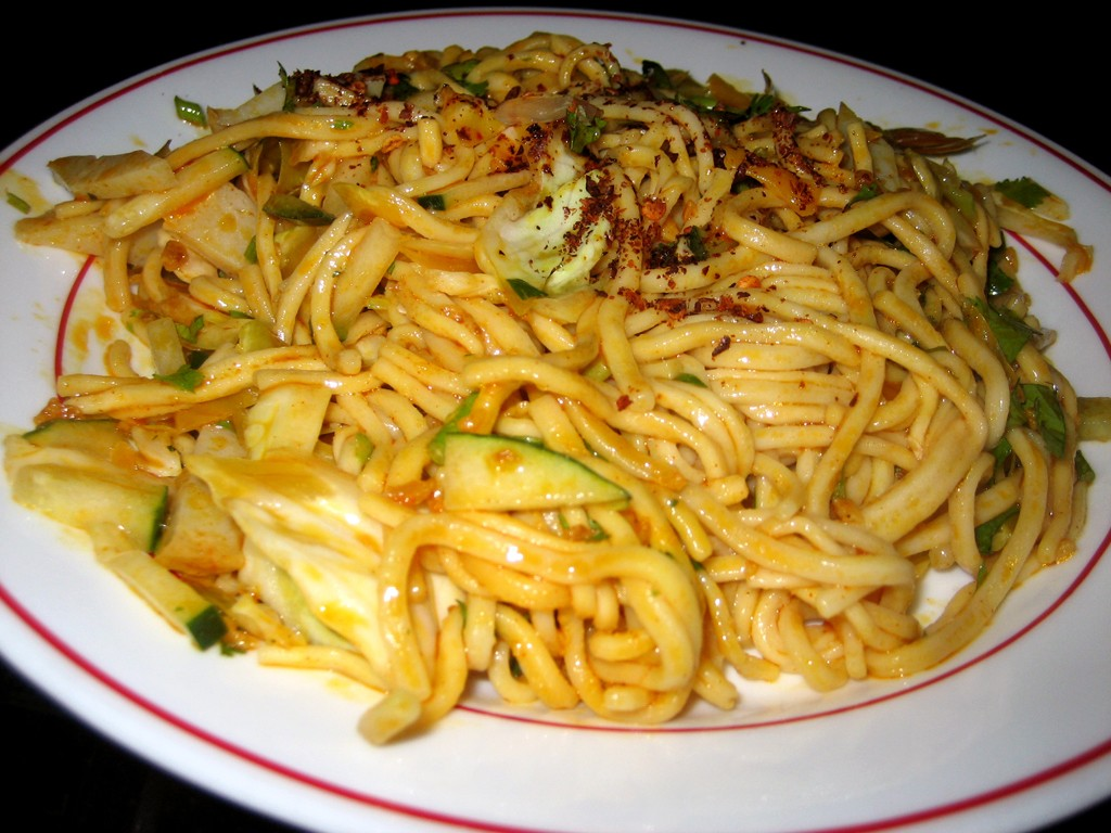 Burmese style noodle salad (khauk swe thoke) မြန်မာဘာသာ: ခေါက်ဆွဲသုပ်